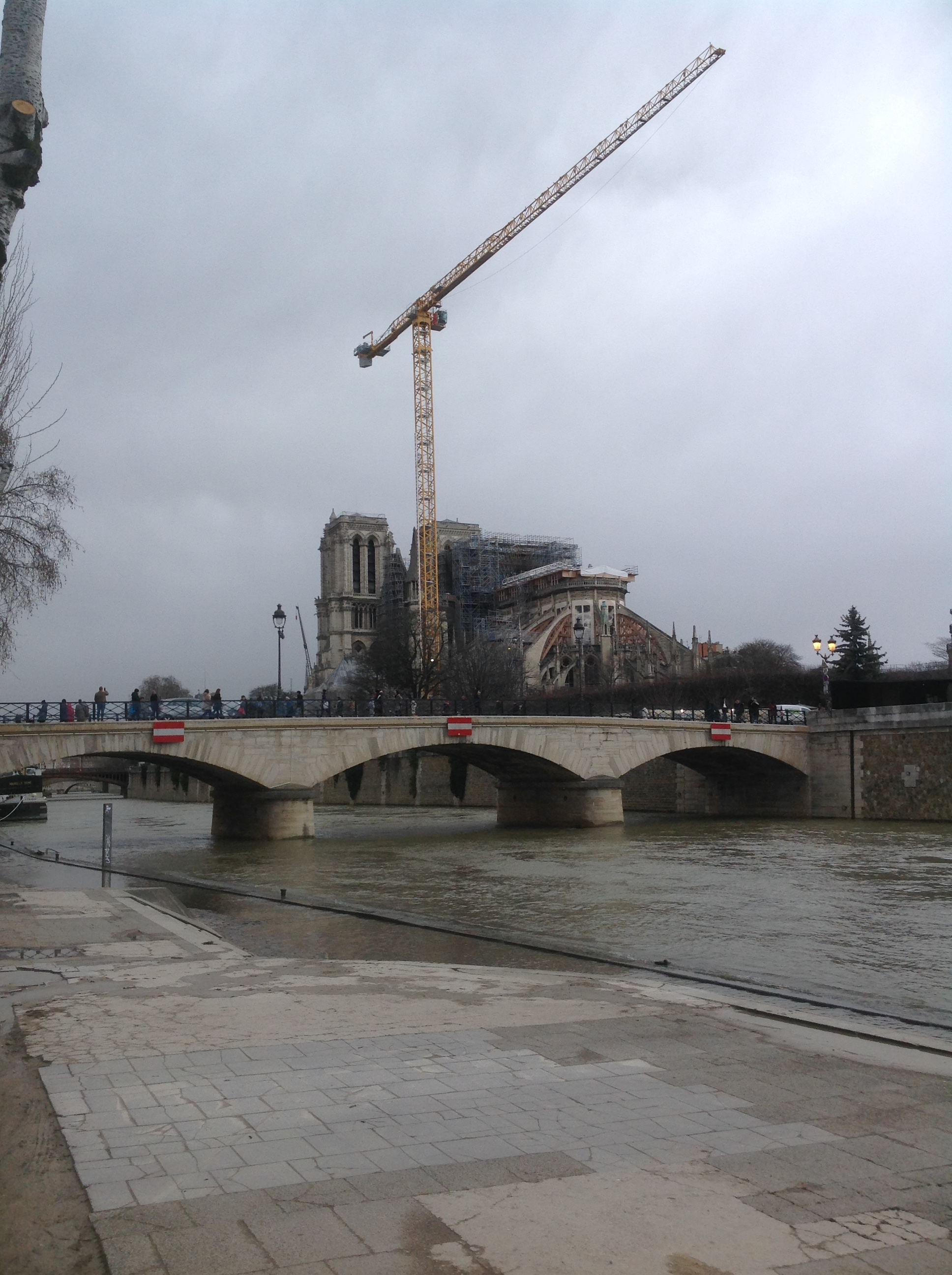 Restoration underway of Notre Dame Cathedral, with a crane placed to remove the damaged roof and melted scaffolding on the roof of the Cathedral.